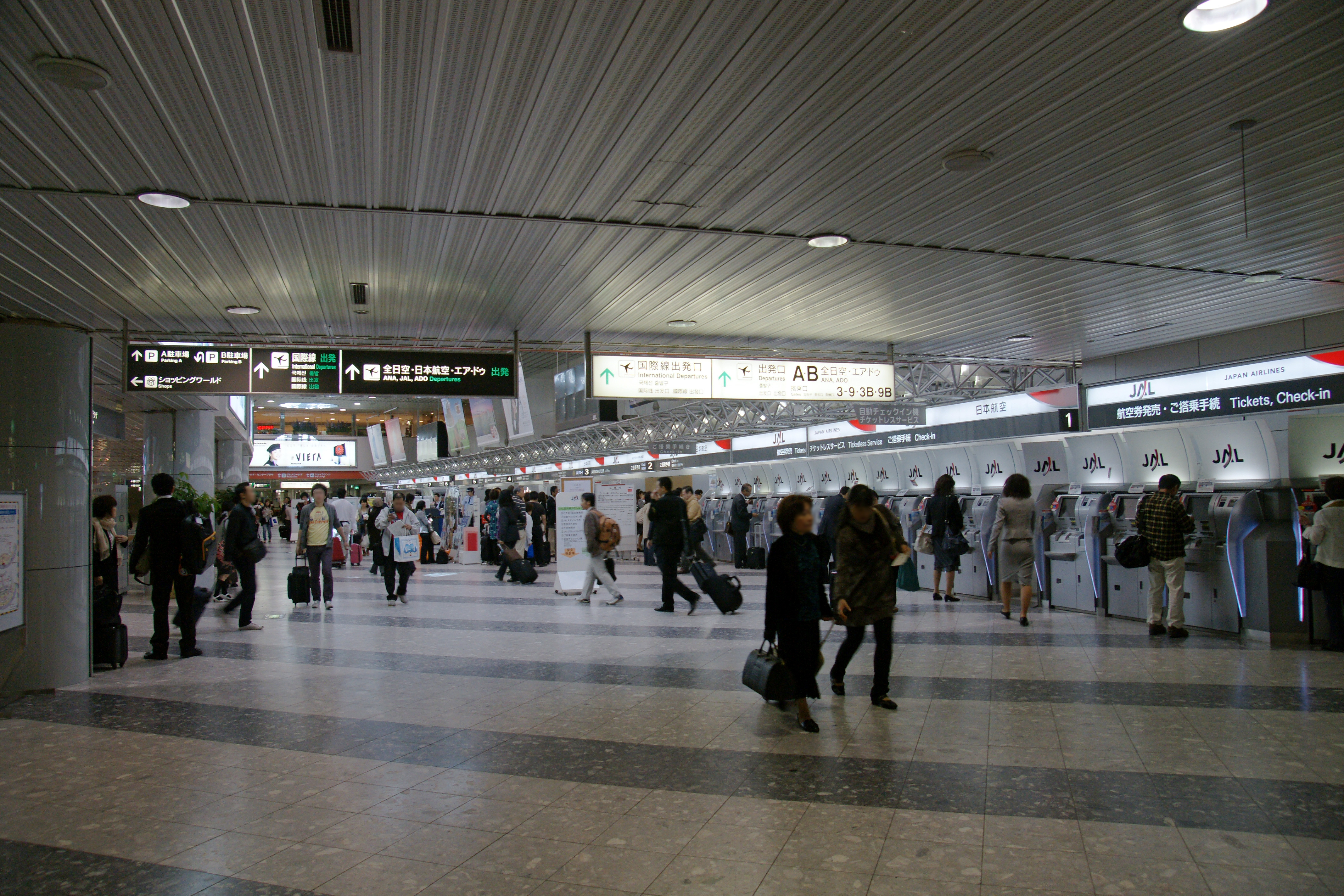 New Chitose Airport, Chitose, Hokkaido prefecture, Japan